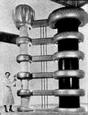 Million volt x-ray machine for radiotherapy built at Los Angeles Institute of Radiology, 1938. The x-ray tube itself is within the left column, while the right column is the transformer power source. The x-ray tube extends through the floor into the treatment room below. The toroidal metal electrodes along the porcelain columns are called corona caps. They equalize the potential gradient along the columns to prevent arcovers.